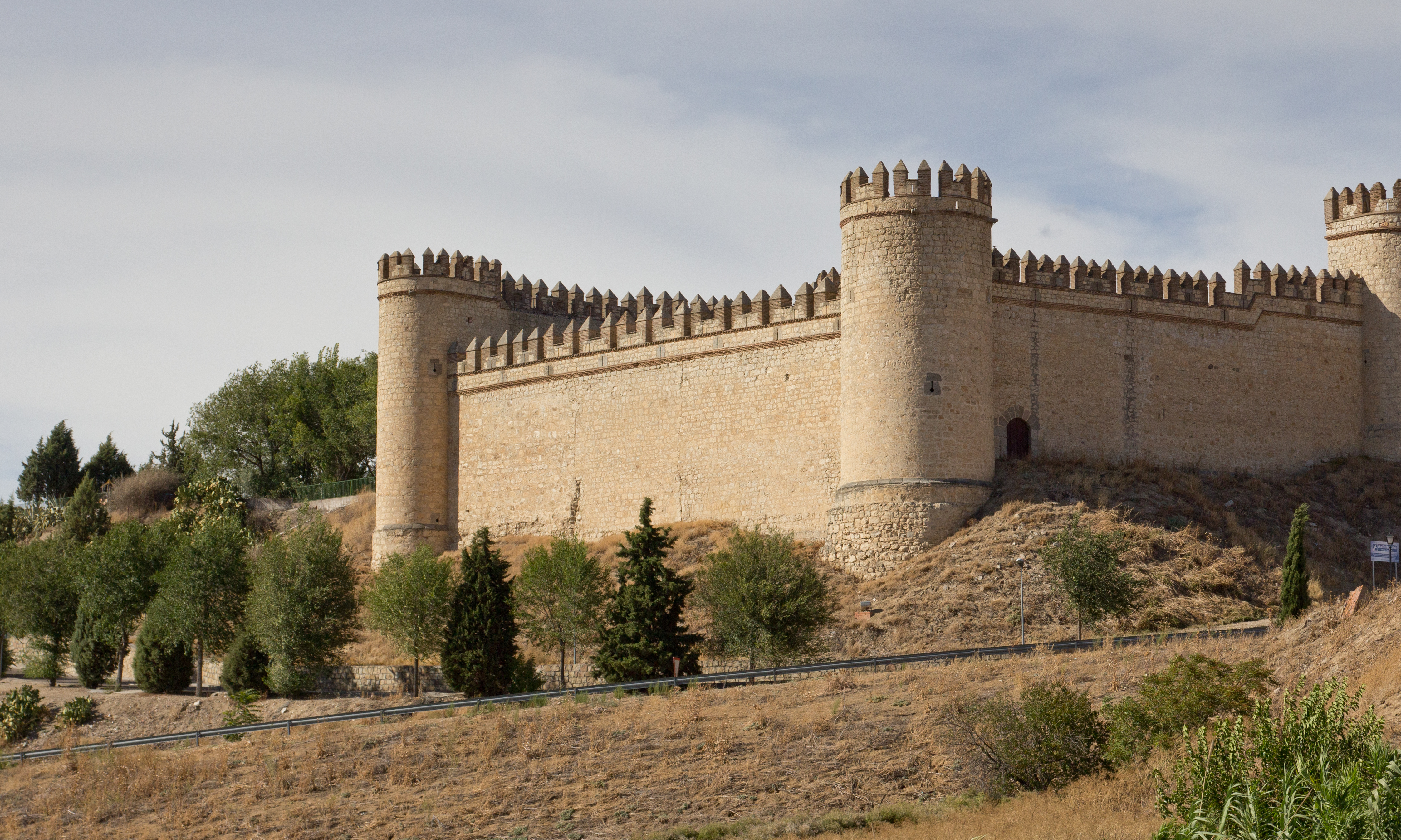 Castle De la Vela, Maqueda, Toledo, Spain.